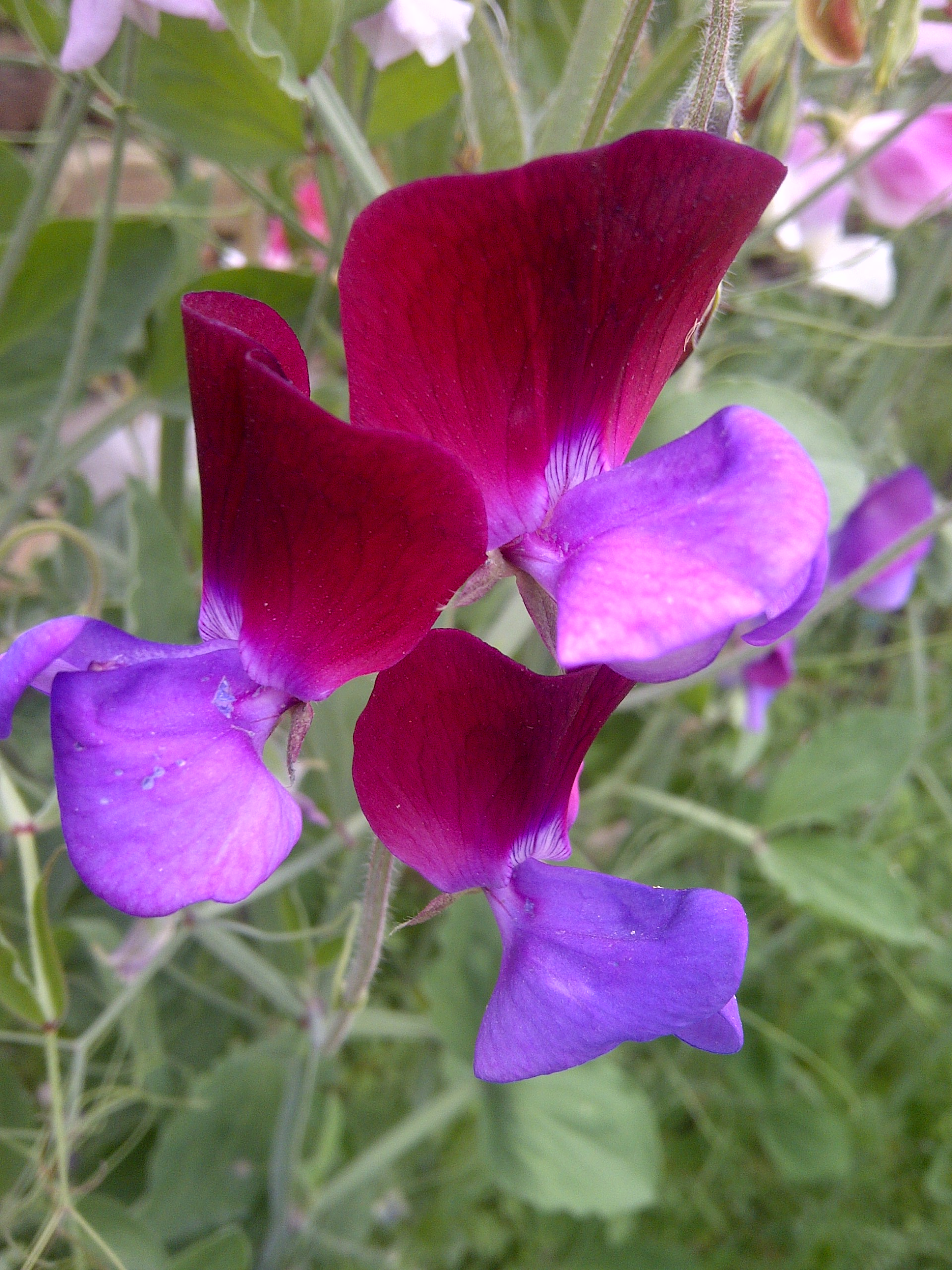 Sweet Pea